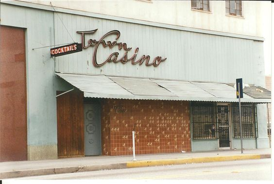 The Padre Hotel Bar, the Town Casino was a local hangout for misfits and barflies in the 80's.